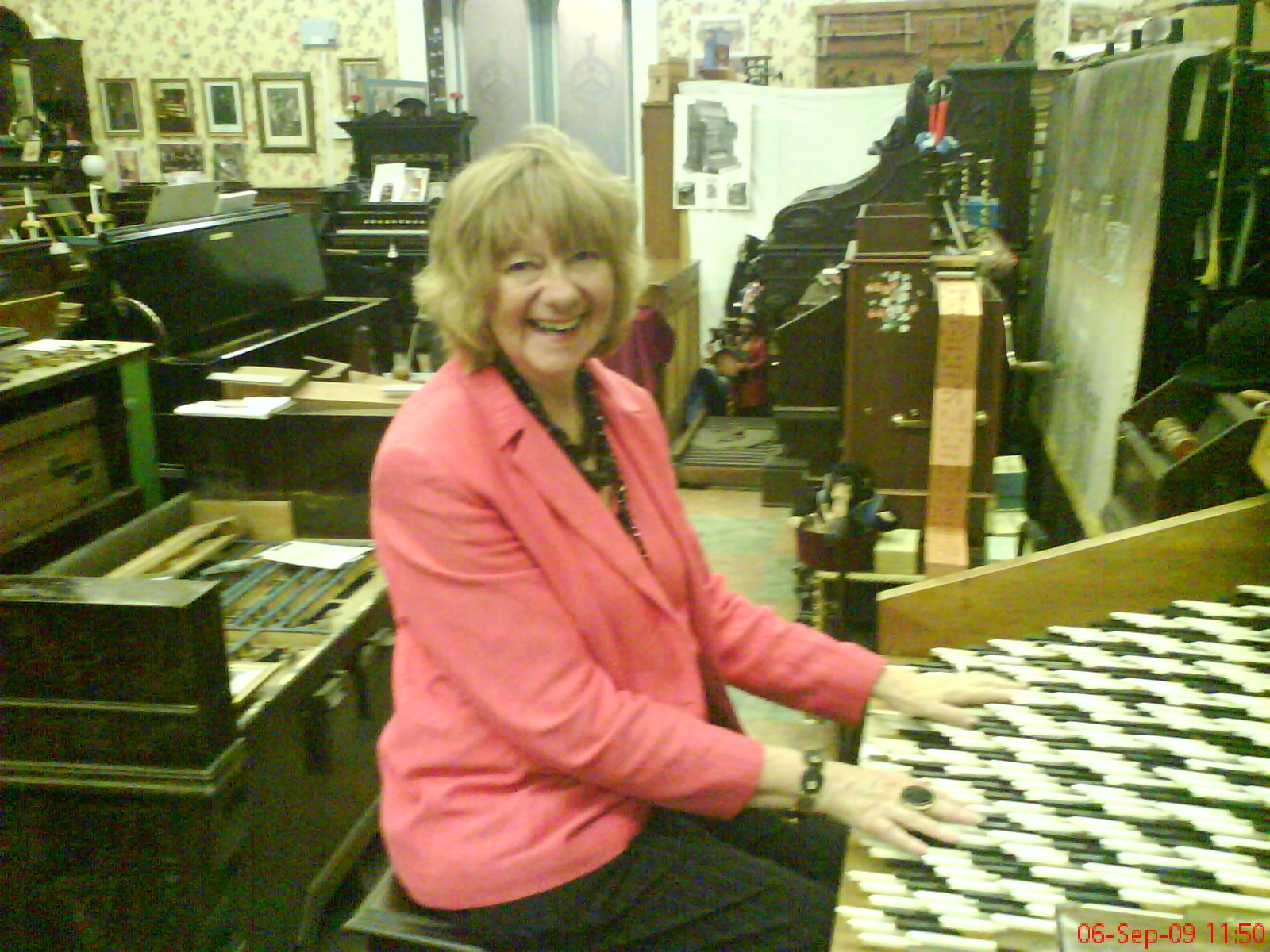 Pam Fluke (Saltaire, England) at the keyboard of R. H. M. Bosanquet's Enharmonic harmonium owned by London Science Museum. Spouses Pam and Phil Fluke restored the instrument in 2006, or more than after 130 years since the beginning of its existence.